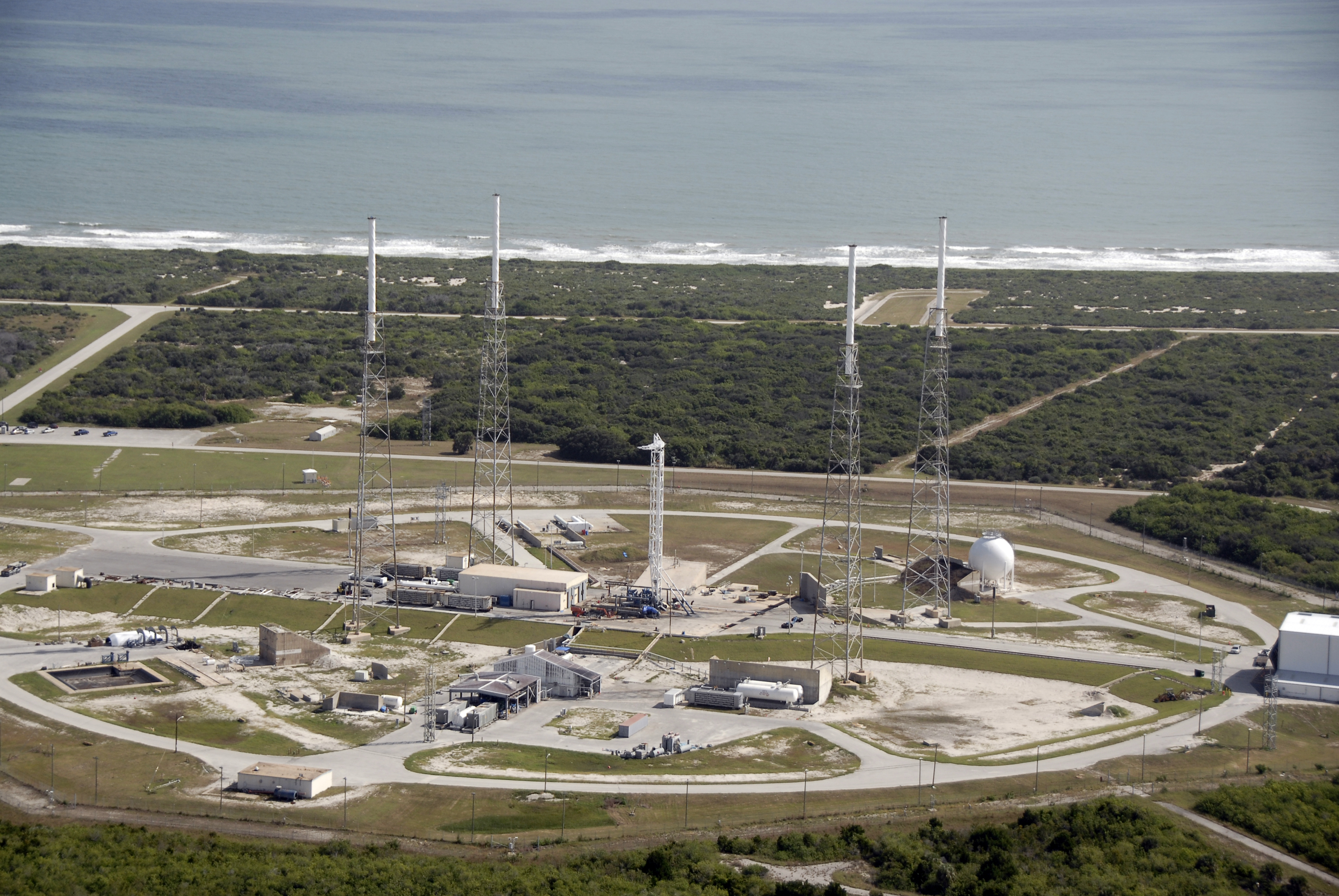 An aerial view of Space Launch Complex 40 on Cape Canaveral Air Force Station. The pad will be used to support the new Falcon rockets to be launched by Space Exploration Technologies, known as SpaceX.